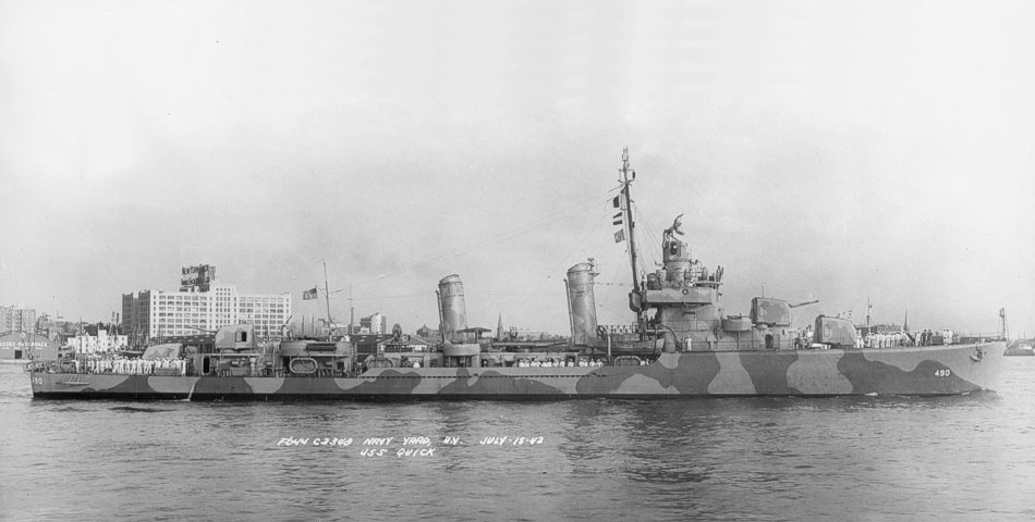 The U.S. Navy destroyer USS Quick (DD-490) off New York Navy Yard, 15 July 1942.